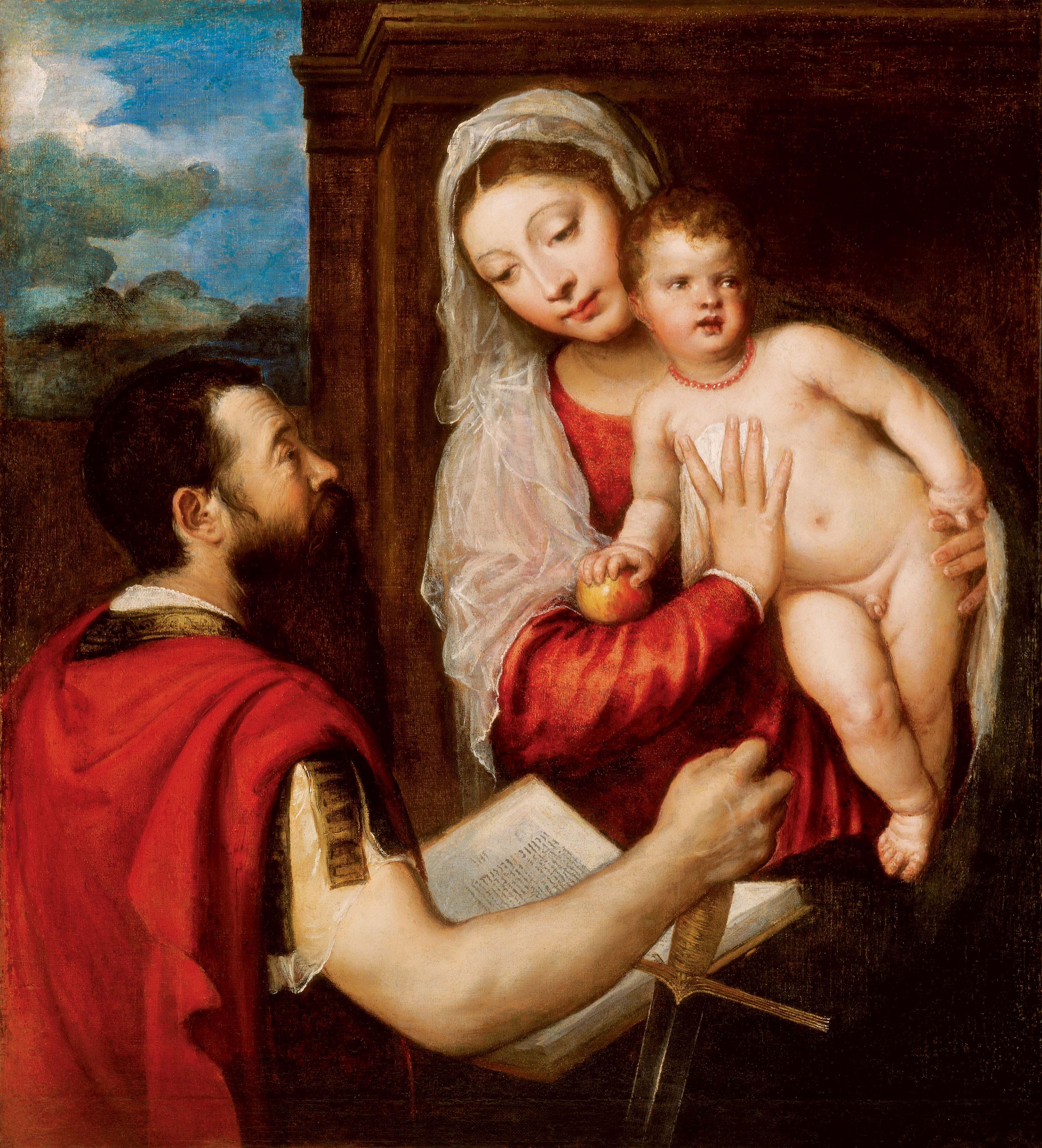 Virgin Mary with Child and St. Paul